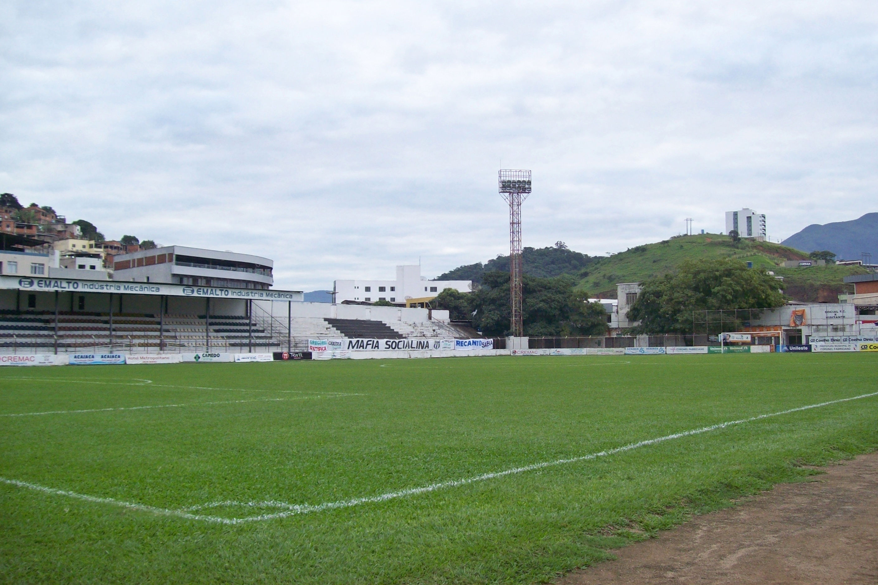 Partial view of the football pitch of the Louis Ensch Stadium, in Coronel Fabriciano, Minas Gerais, Brazil.